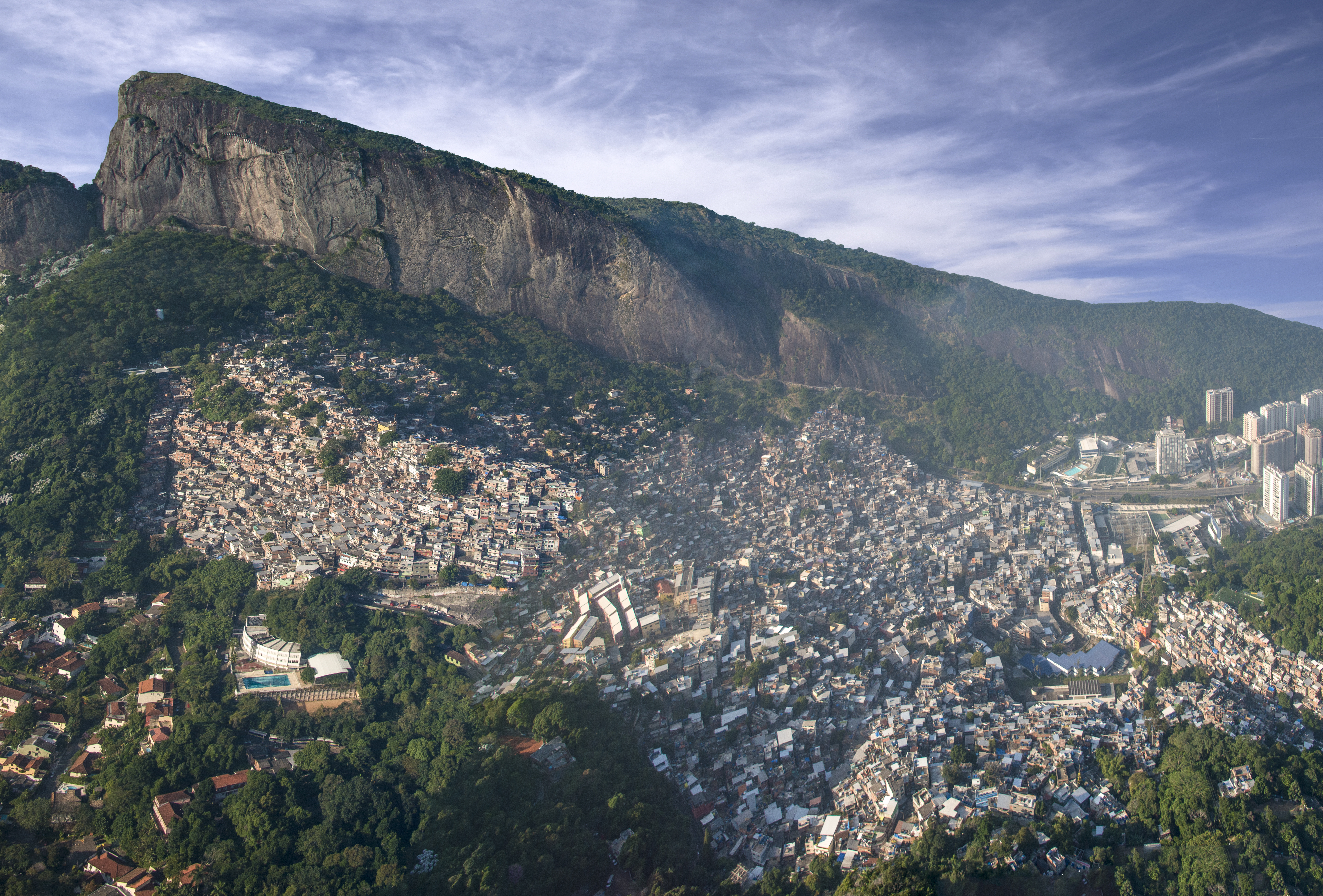 rocinha favela aerial panorama 2014 rio de janeiro brazil